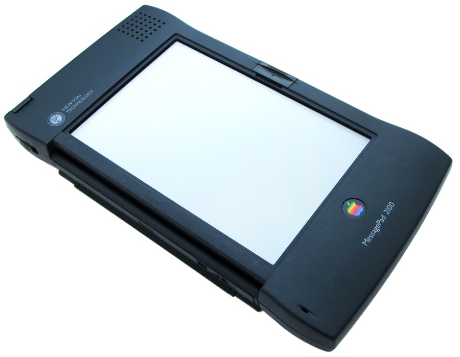 I bought a new camera recently and I decided that one of my Newtons would make a great subject. I really like how this picture turned out. The full-sized image is available for download at my website.